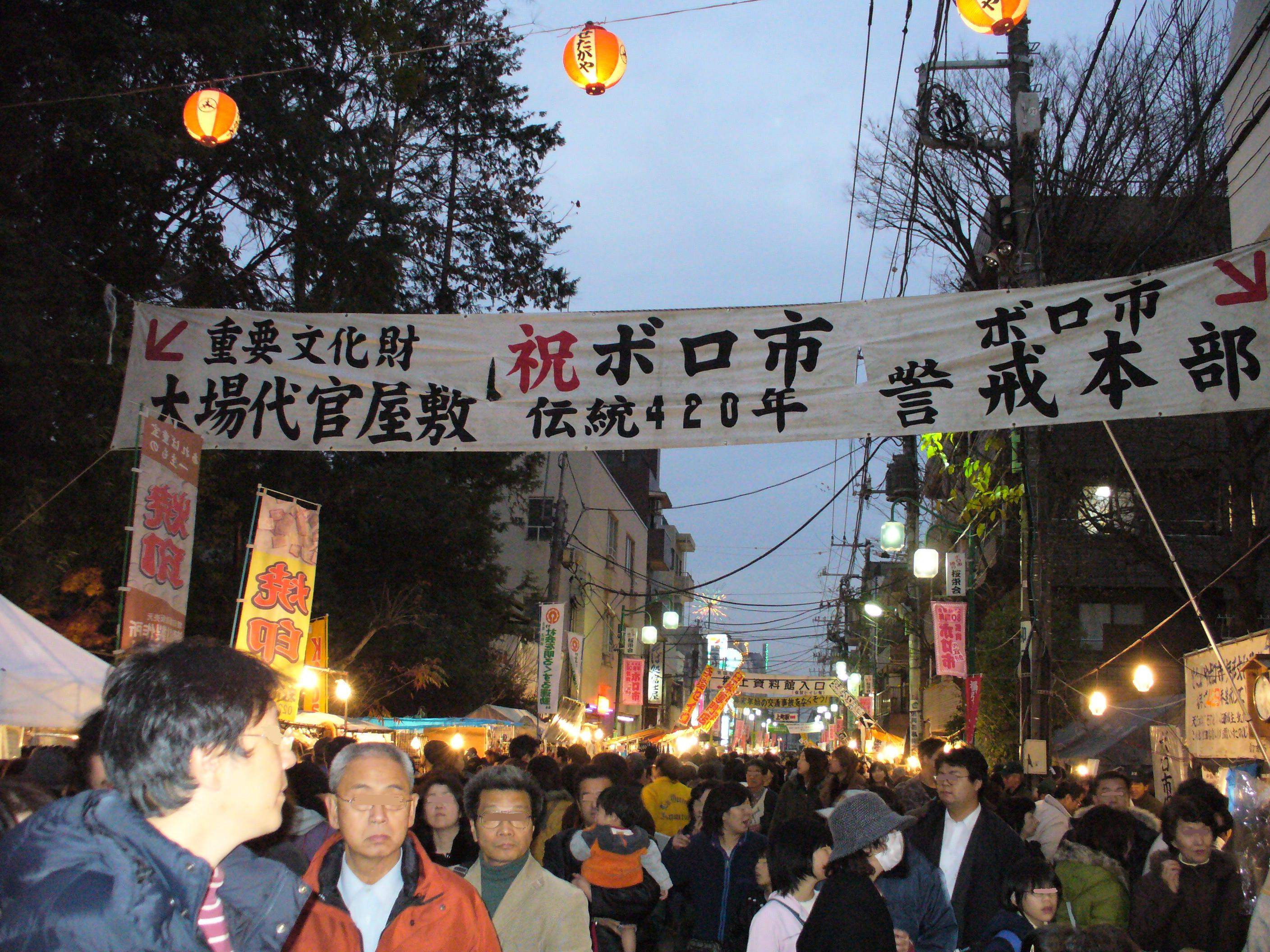 Boro-ichi Market. Pictured at Setagaya-ku, Tokyo, Japan.